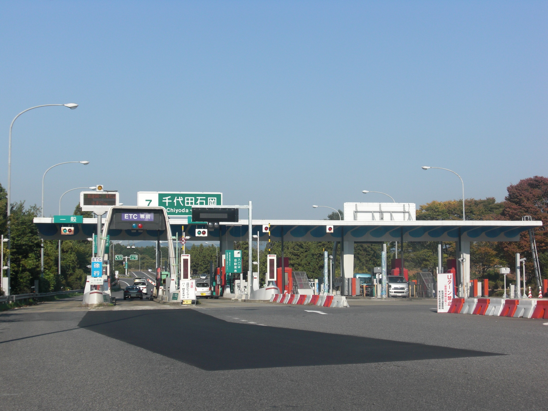 This is an interchange in Joban EXPWY, Japan.